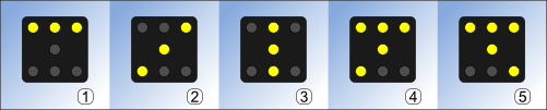 US-US&S-PosLightSig Domino1-Stop 2-Approach 3-Proceed 4-Approach Medium 5-Restricted